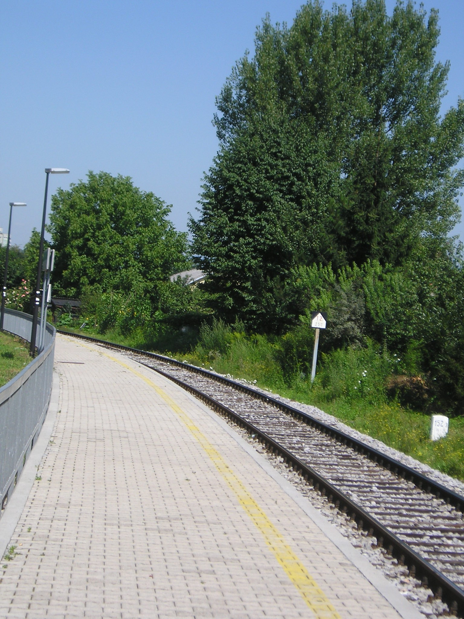 Ljubljana - Vodmat rail stop (on the Ljubljana - Metlika line) in Vodmat district, Ljubljana, Slovenia